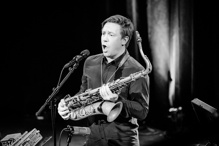 Håkon Kornstad at Victoria Teater. The concert took place on 01. March 2018 in Oslo. Lineup: Håkon Kornstad (saxophone and vocal), Frode Haltli (accordion) and Mats Eilertsen (double bass).